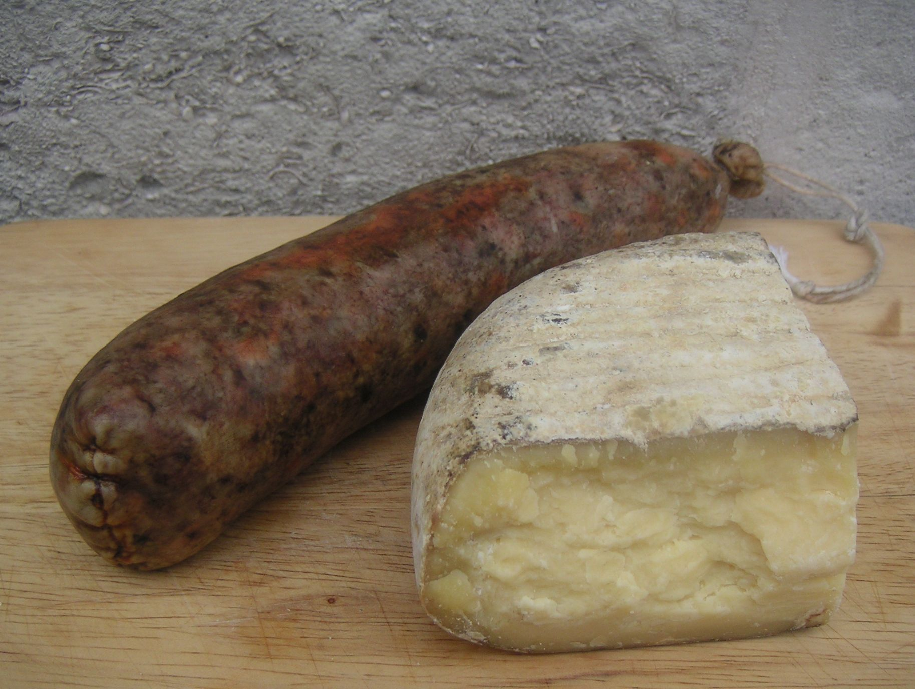 Sobrassada and Maó cheese are gastronomical symbols of Minorque and in general of the Balearic Islands.